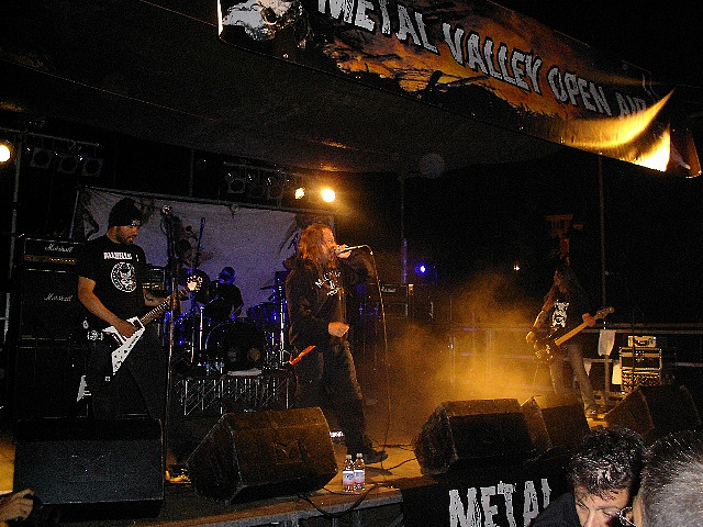 Entombed´s playing live at Metal Valley Open Air.